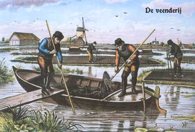 Peat dragging in Holland. ca 1800.